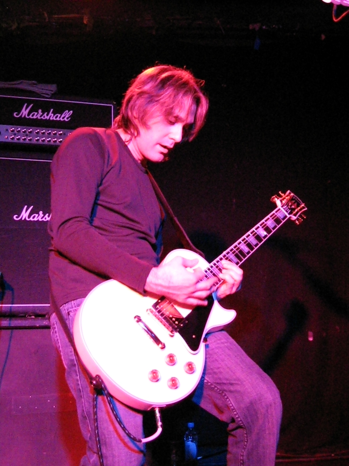 Fates Warning at The Underworld in Camden, 2007-11-21.